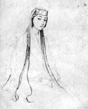 Georgian Princess Manana Orbeliani.